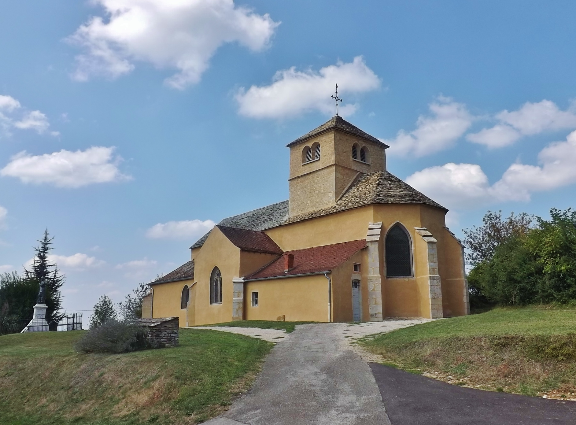 Sight of église Saint-Martin church of Nant-lès-Saint-Amour in Jura, France.